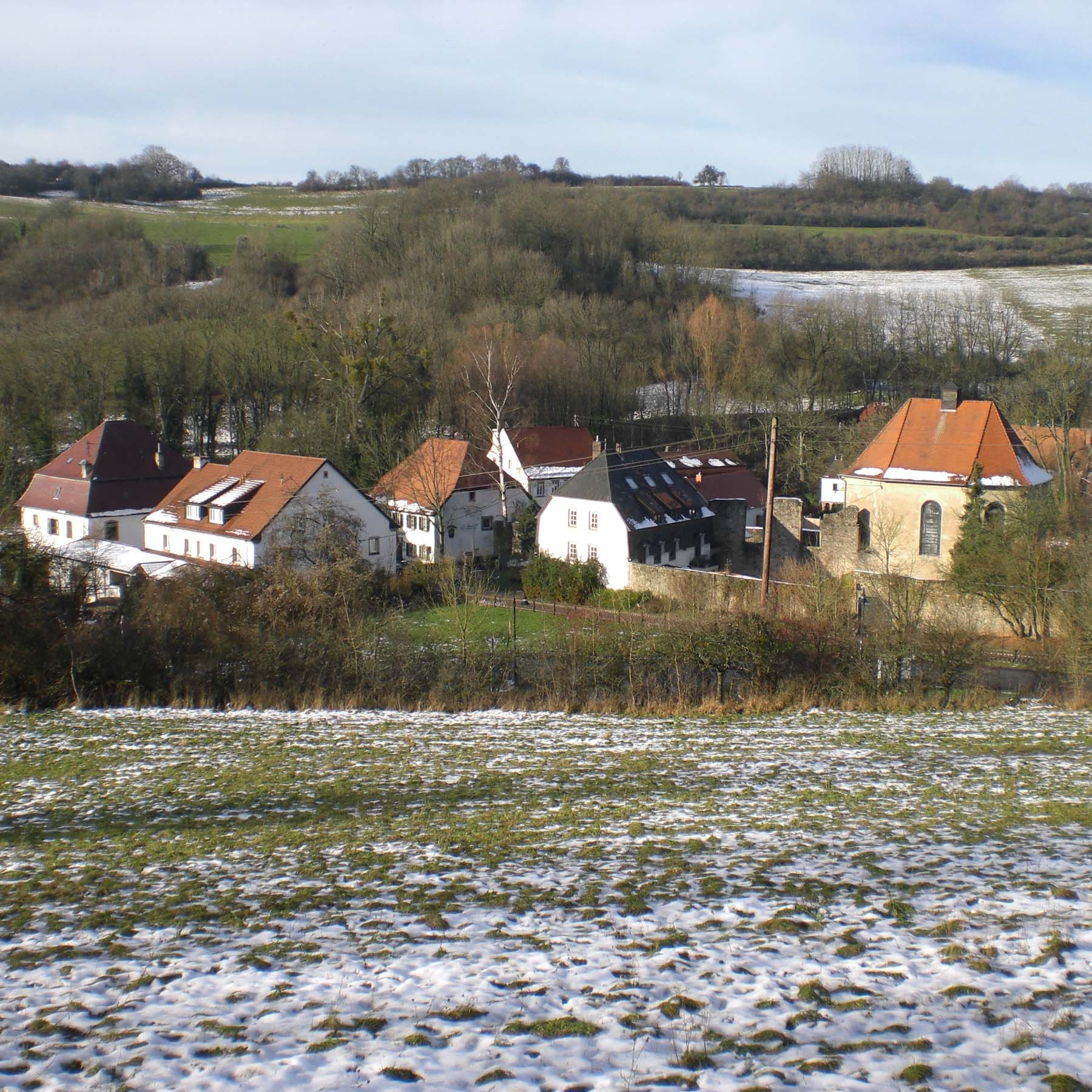 overview ancient convent Gräfinthal, commune Mandelbachtal, Saarland, Germany